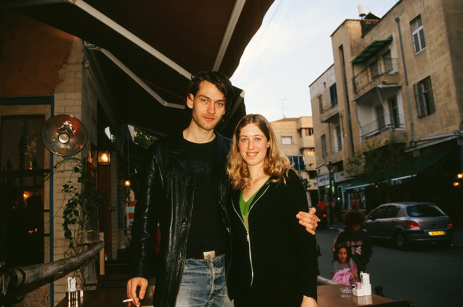 Man and Woman.